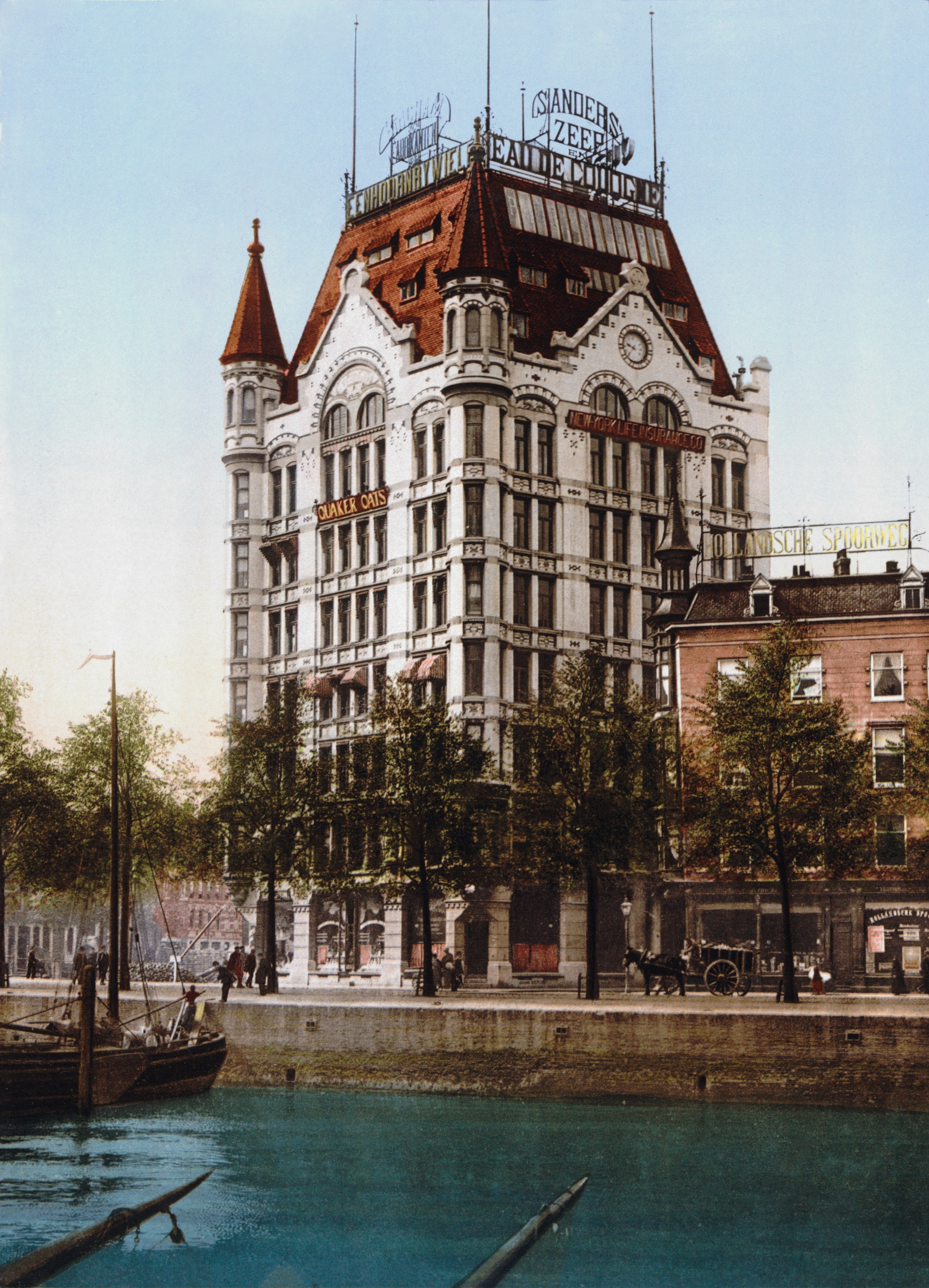 Rotterdam, Het Witte Huis (the white house). Photochrom picture of 1890-1900.